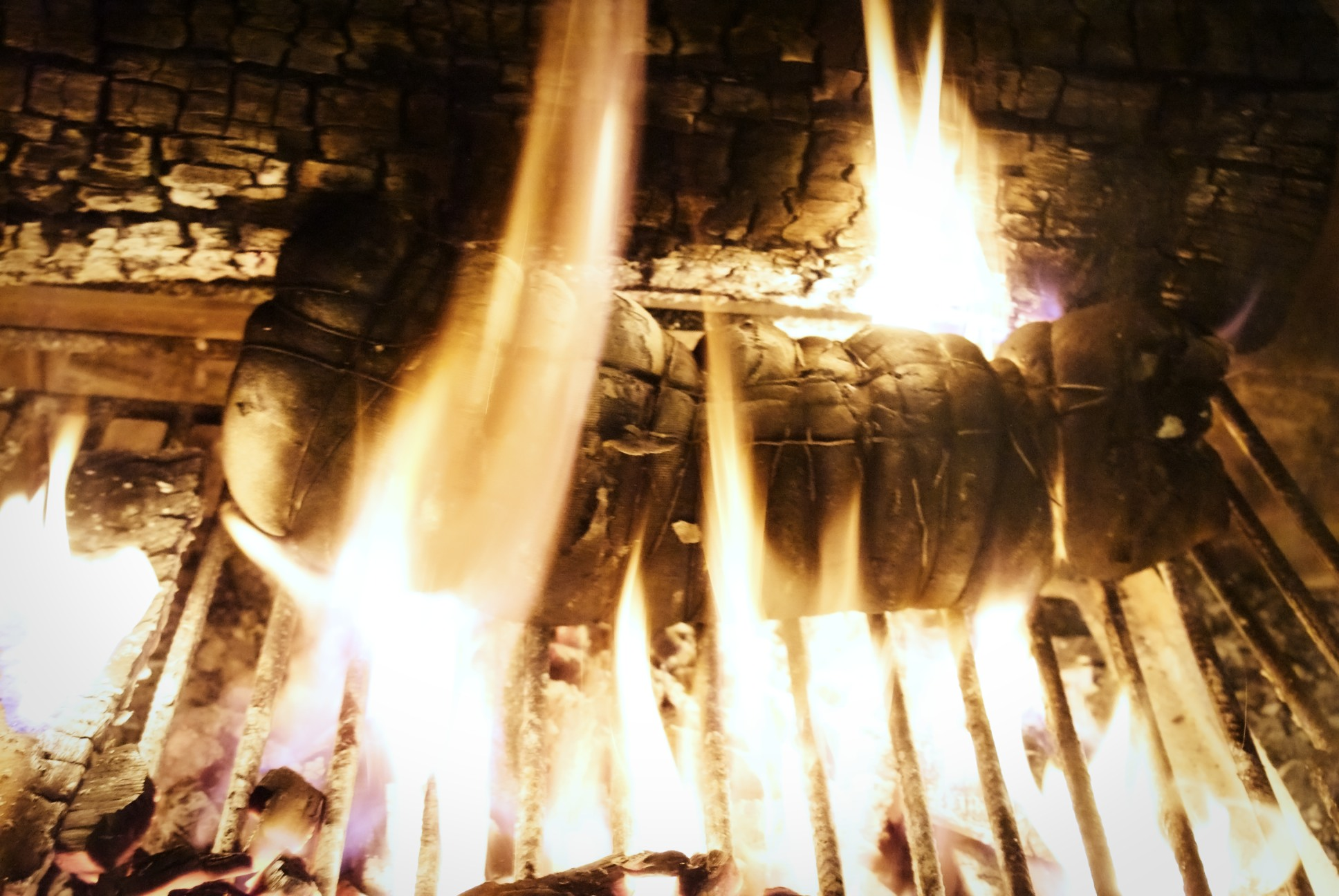 Salt-Crusted Beef Tenderloin Grilled in Cloth